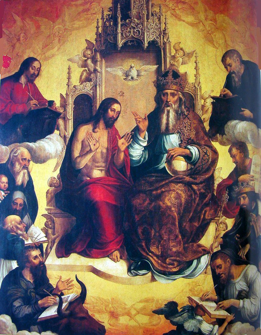 Panel from the altarpiece from the Mosteiro da Trindade